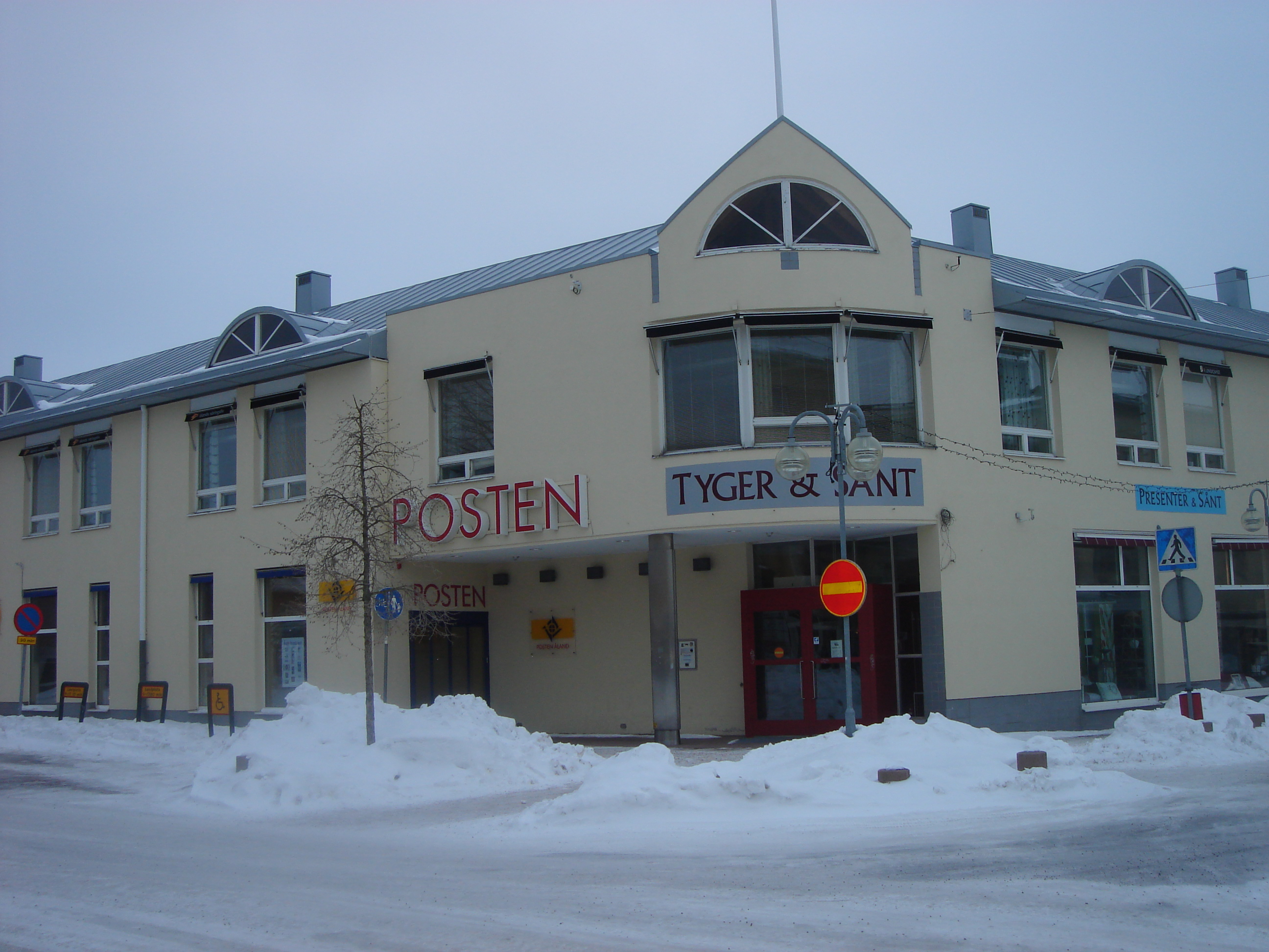 Post office in Mariehamn, Åland, Finland